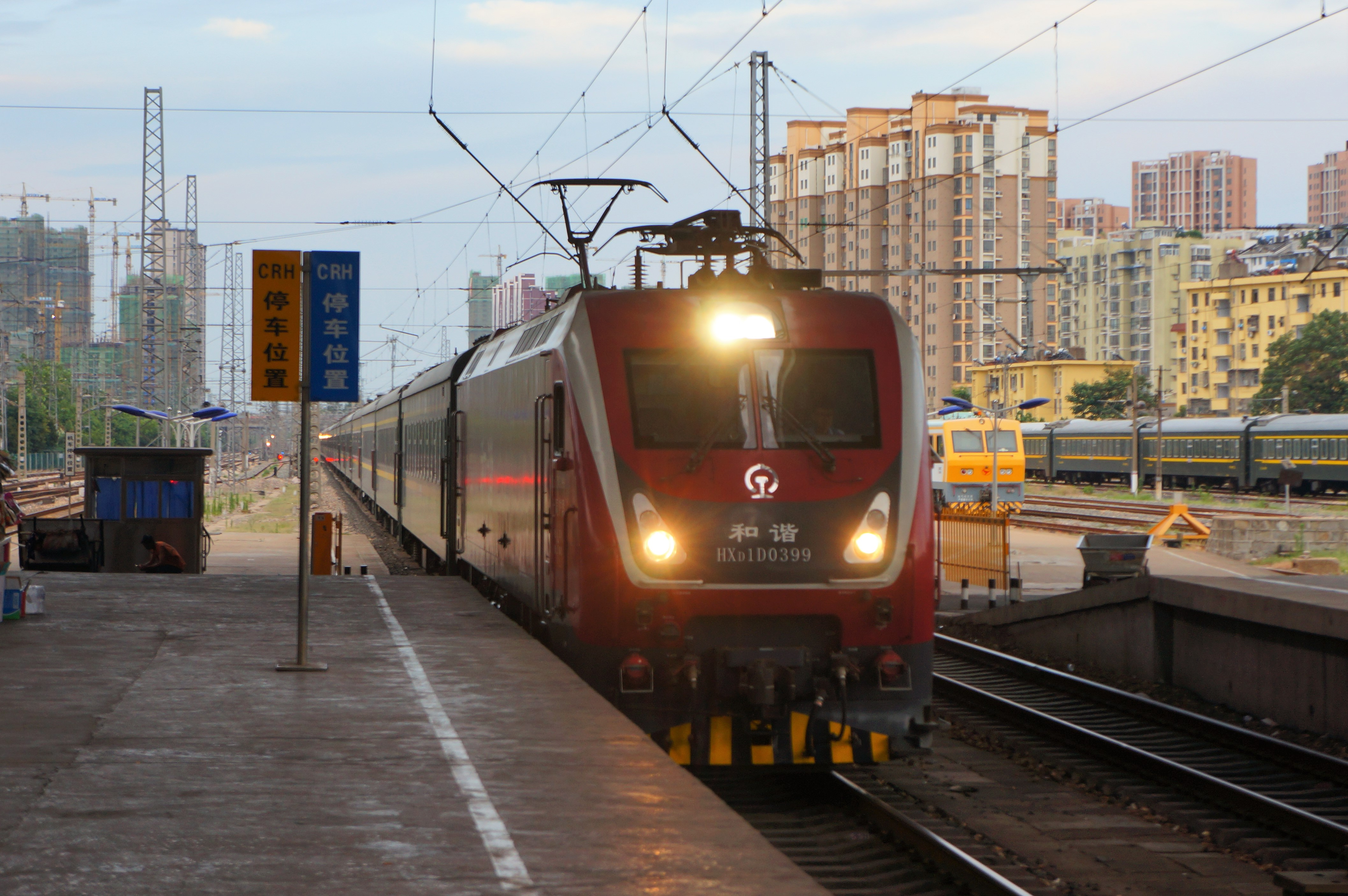 201806 HXD1D-0399 hauls K850 enters into Bengbu Station